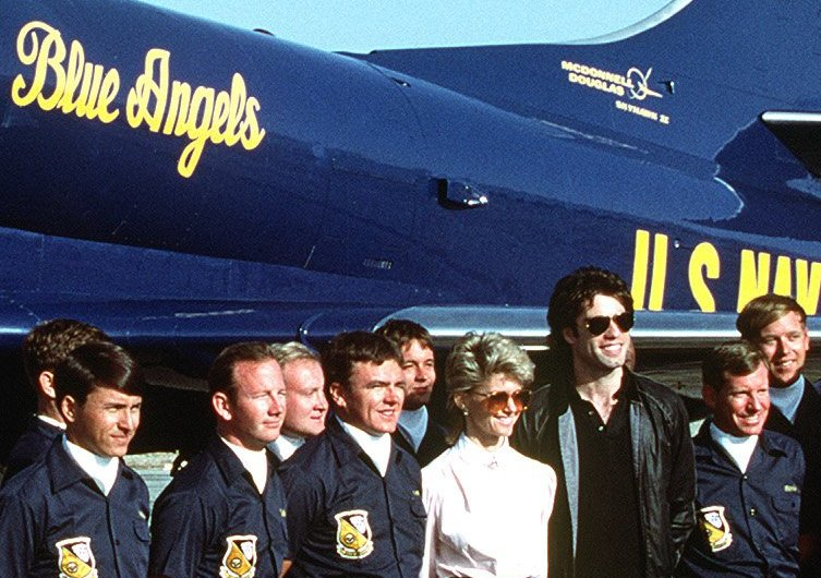 ID: DNST8301252 Service Depicted: Navy Entertainers John Travolta and Olivia Newton-John, center, along with enlisted crew of the Navy's Blue Angels flight demonstration team pose in front of an A-4F Skyhawk aircraft parked on the apron. The Blue Angels performed during a local air show. Location: SALINAS, CALIFORNIA (CA) UNITED STATES OF AMERICA (USA) Camera Operator: PH3 CURT FARGO Date Shot: 3 Oct 1982